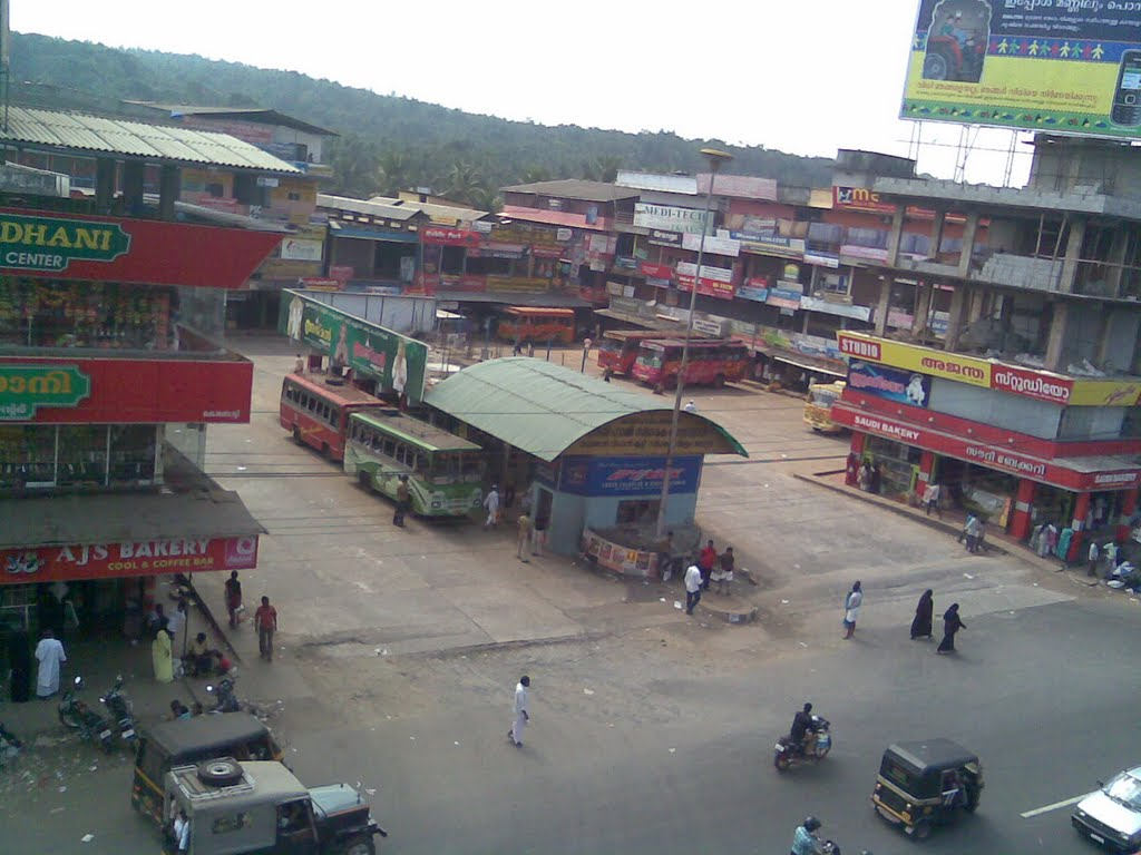 Kondotty Town's BusStand part